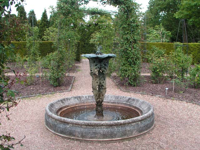 Fountain in the rose garden, Nymans Gardens The fountain, in the form of a stylised rose, was designed by Vivien ap Rhys Pryce. Not the best time of year for the roses so expect a follow up shot later in the year.